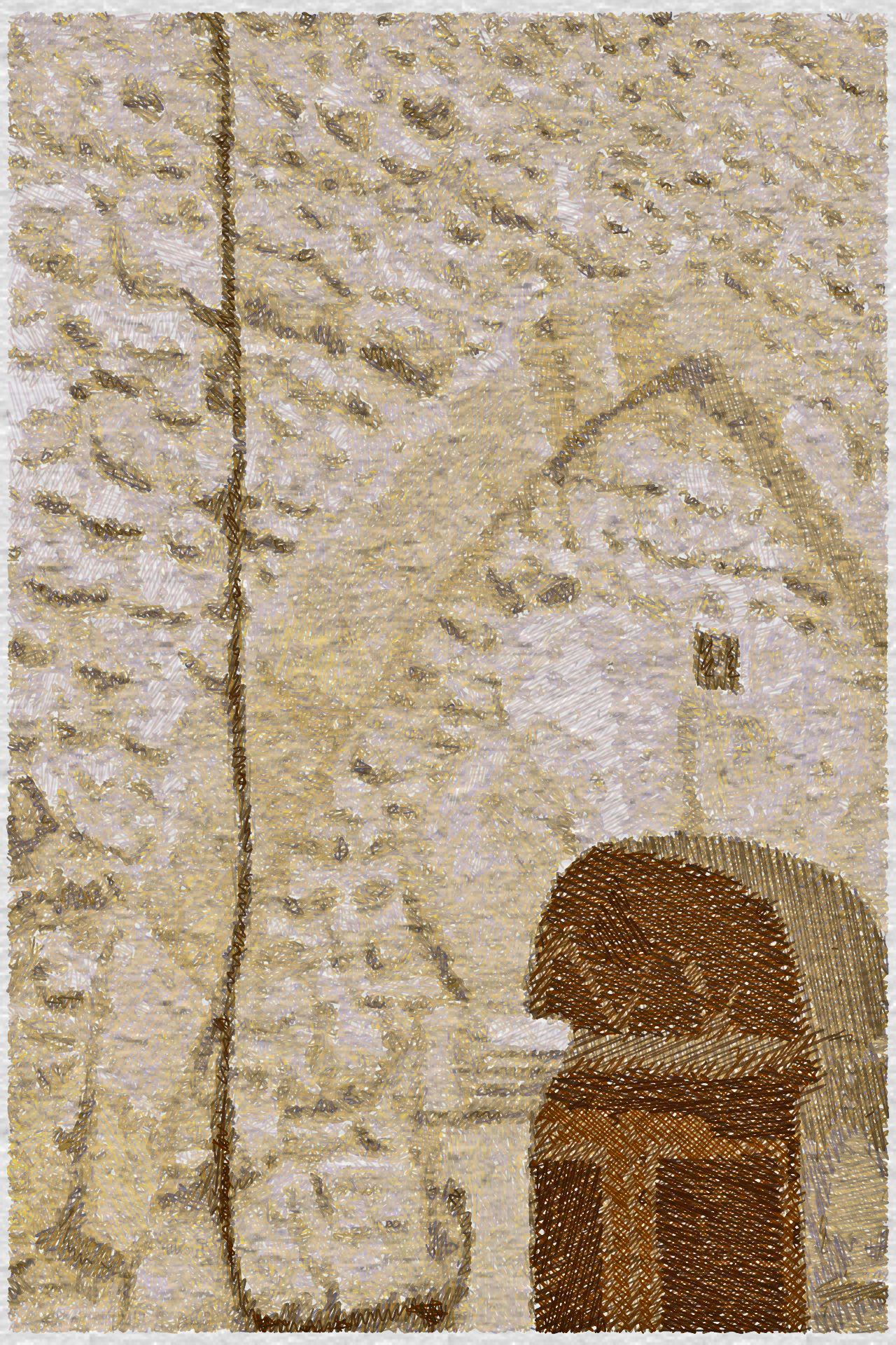 sketchbook of ecouche arches